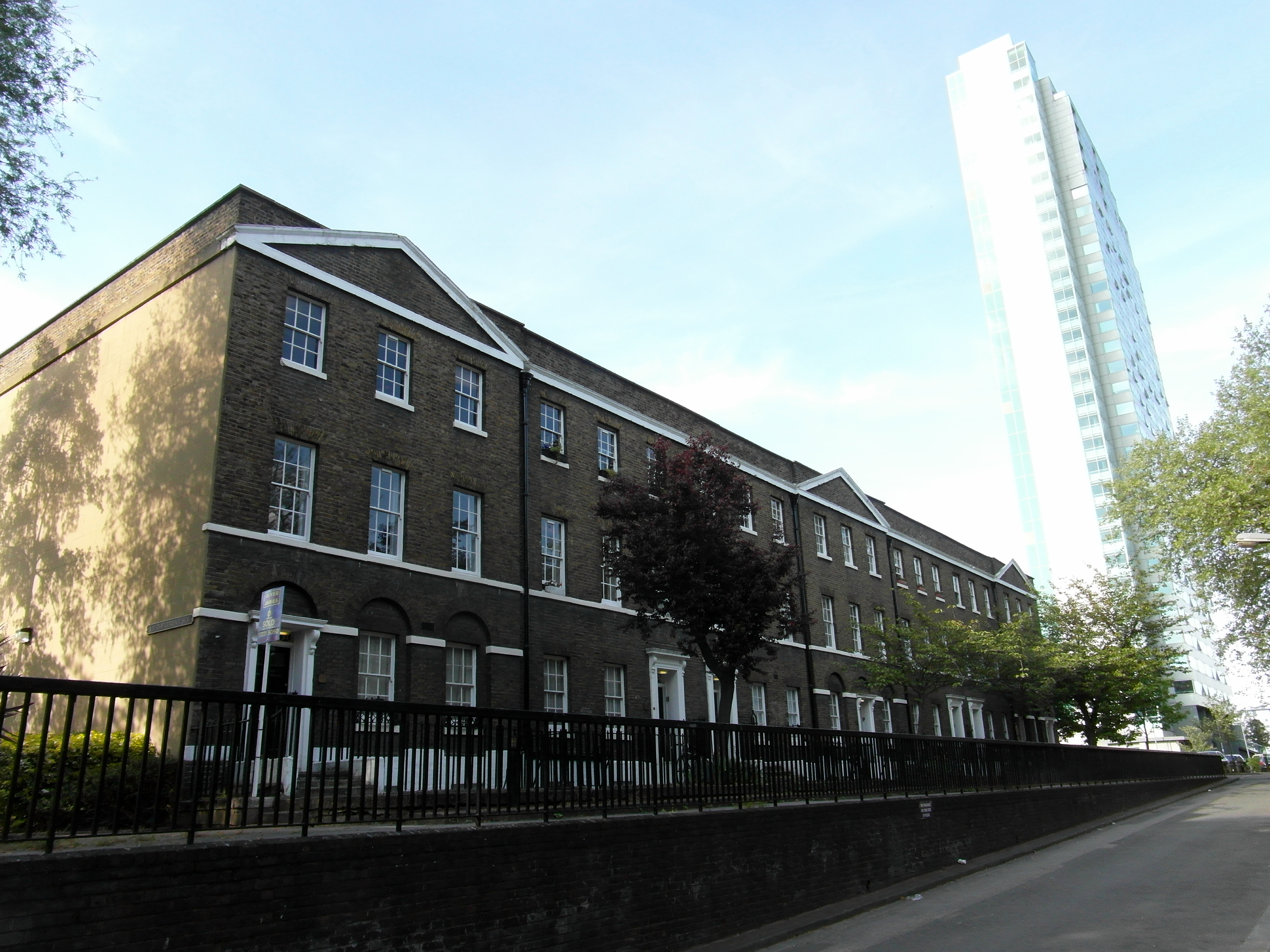 Circa 1791 terrace of 7 houses built for senior officers of the Victualling Yard.